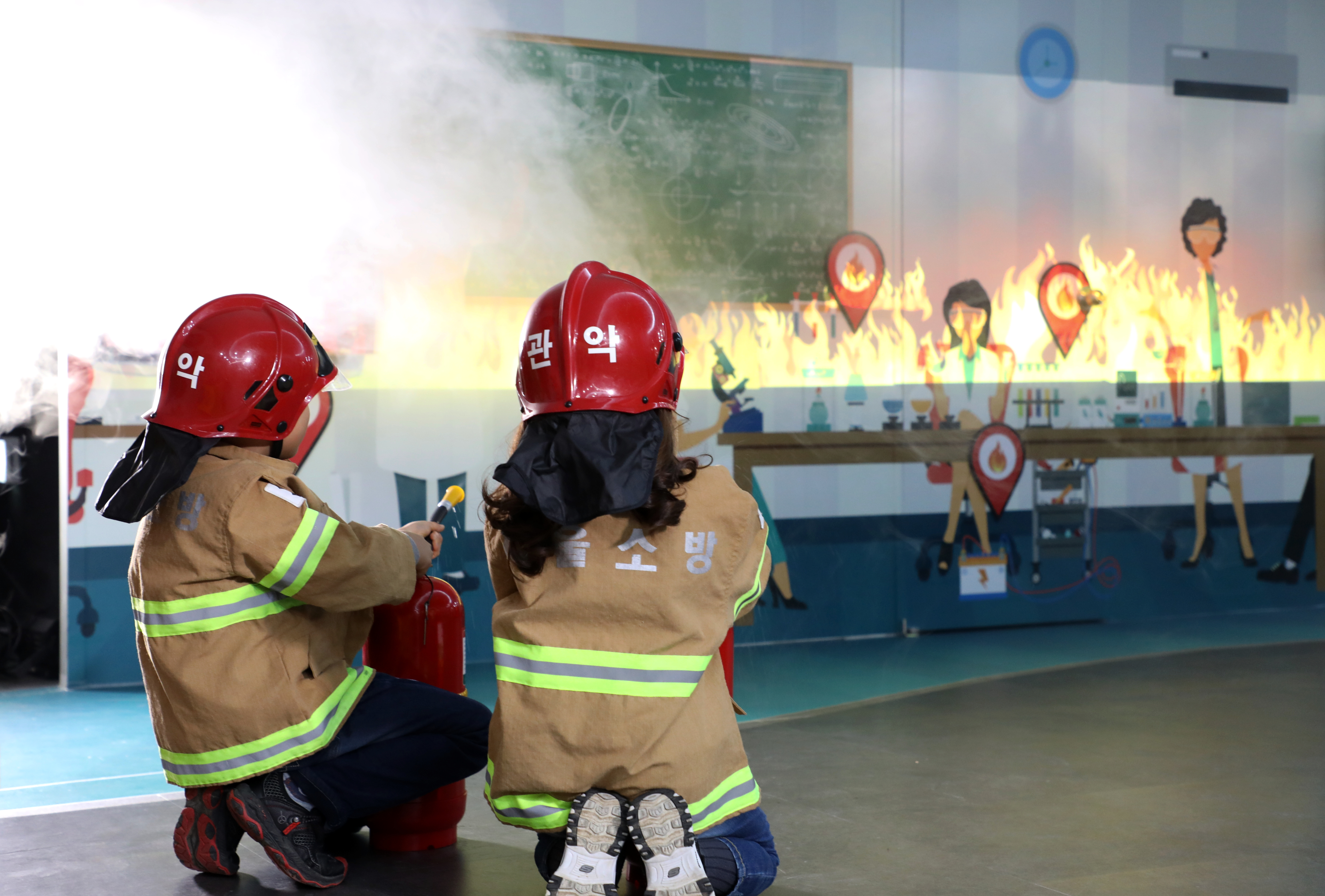 Gwanak Safety Theme Park